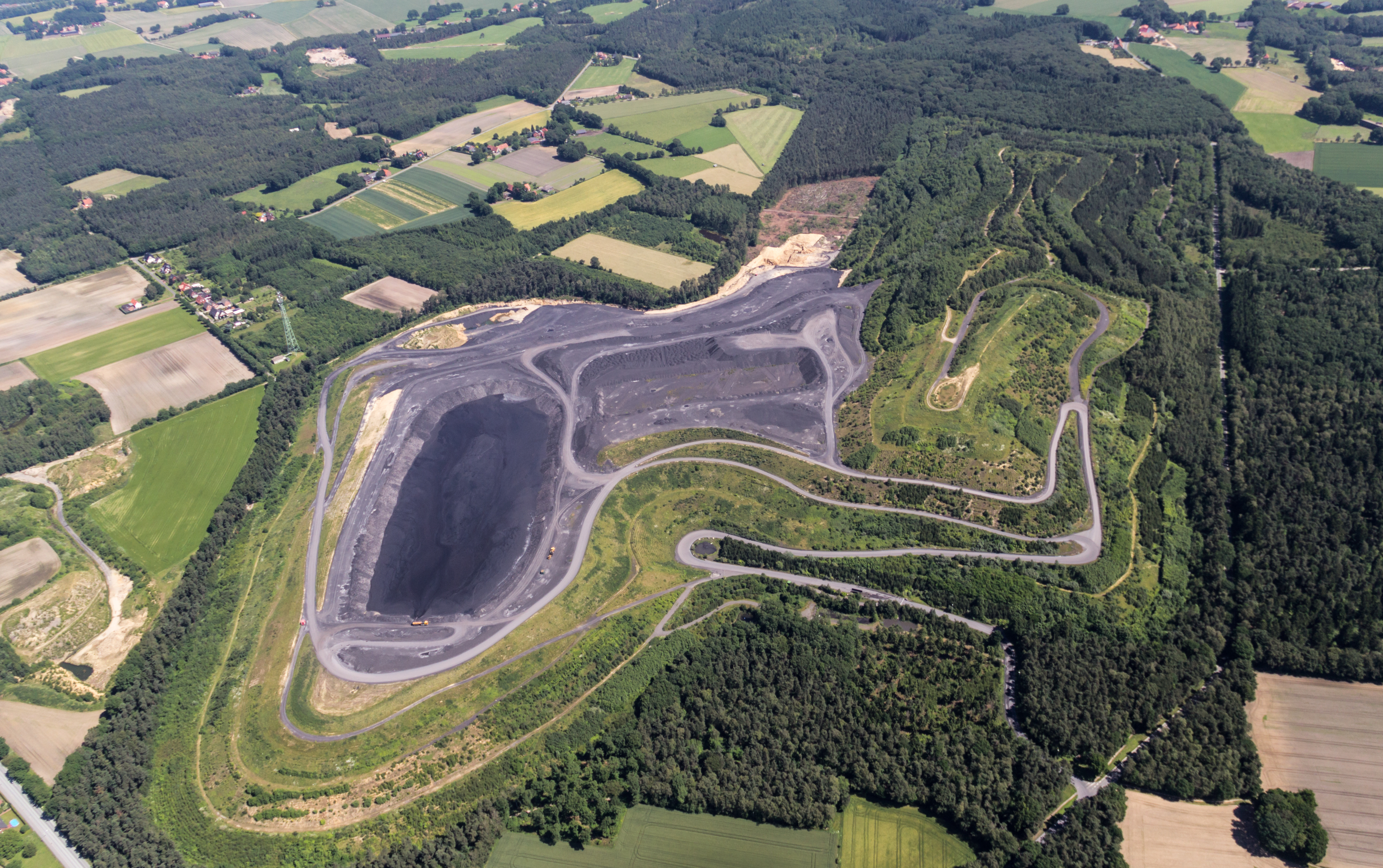 Ibbenbüren, North Rhine-Westphalia, Germany